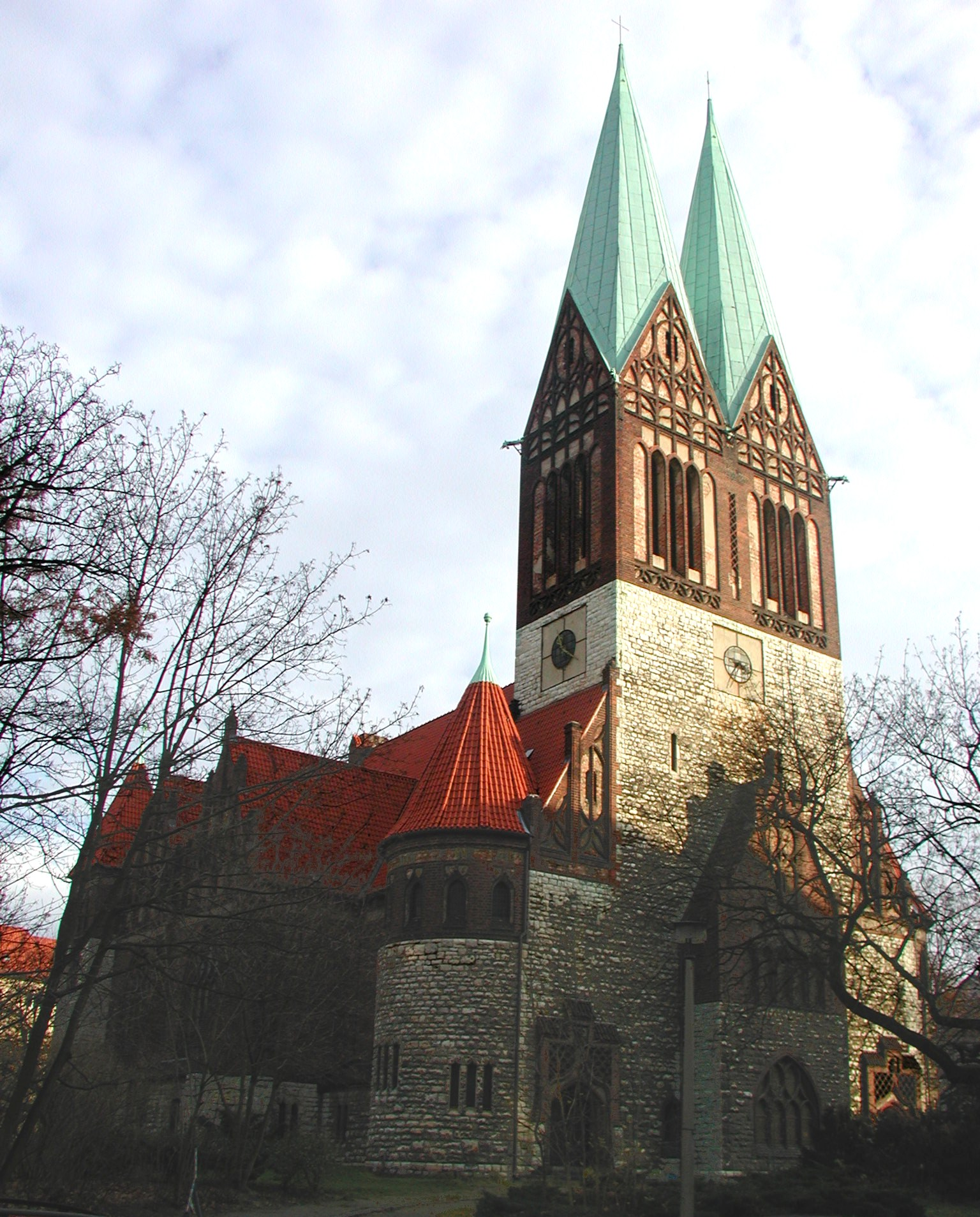 Ss. Anthony and Shenouda (1). The Coptic Orthodox Church of Ss. Anthony the Great and Shenouda the Archimandrite on Roedeliusplatz square in Berlin-Lichtenberg, view of November 2007 from southwest. Since 1999 the Coptic Orthodox congregation of Berlin is the legal holder of the Erbbaurecht (German leasehold estate) of the site and the proprietor of the church building proper, which it purchased from the Protestant Alt-Lichtenberg congregation, who owned the church before, then named Church of Faith (Glaubenskirche). The building was errected between 1903 and 1905 by Ludwig von Tiedemann.